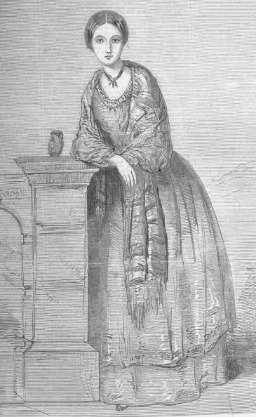 A drawing of Florence Nightingale by her sister Parthe